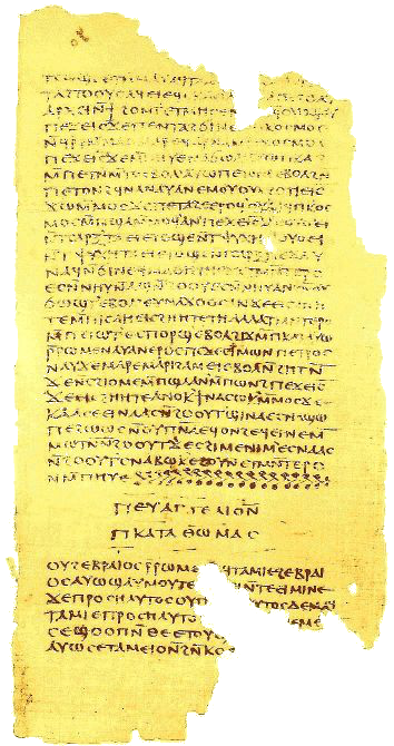 Gospel of Philip, NHC II,3. The Nag Hammadi Library.